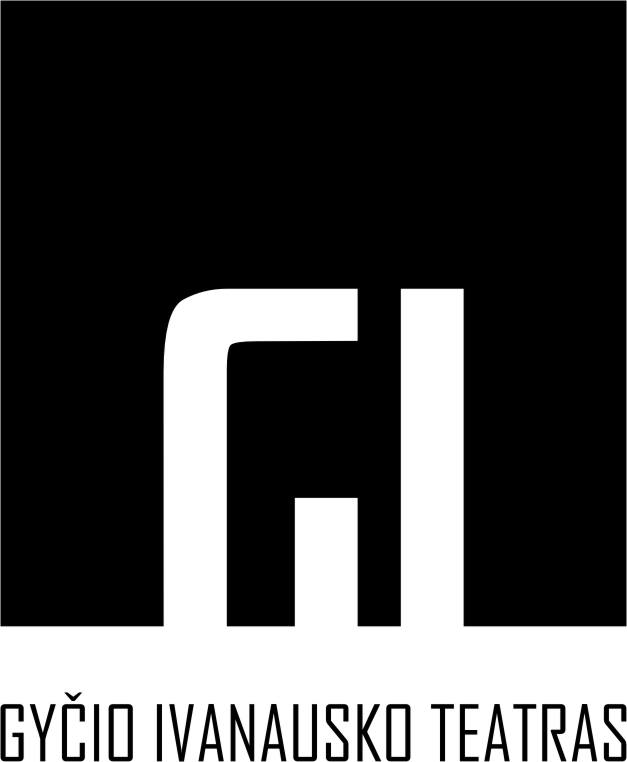 Gyčio Ivanausko teatras